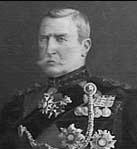 British general Redvers Buller